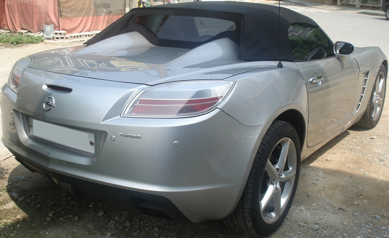 Daewoo G2X